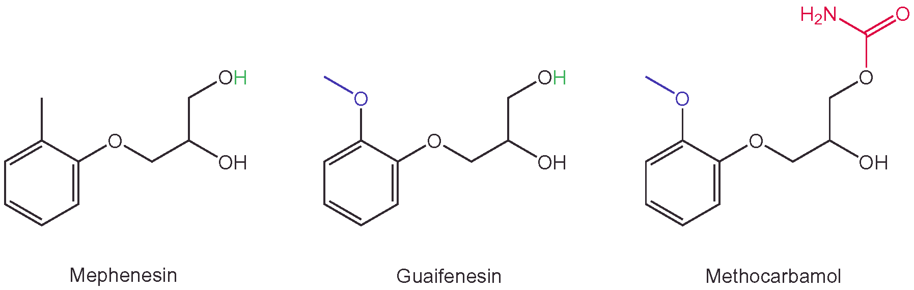 Diagram showing the chemical structures of mephenesin and its two derivatives, guaifenesin and methocarbamol